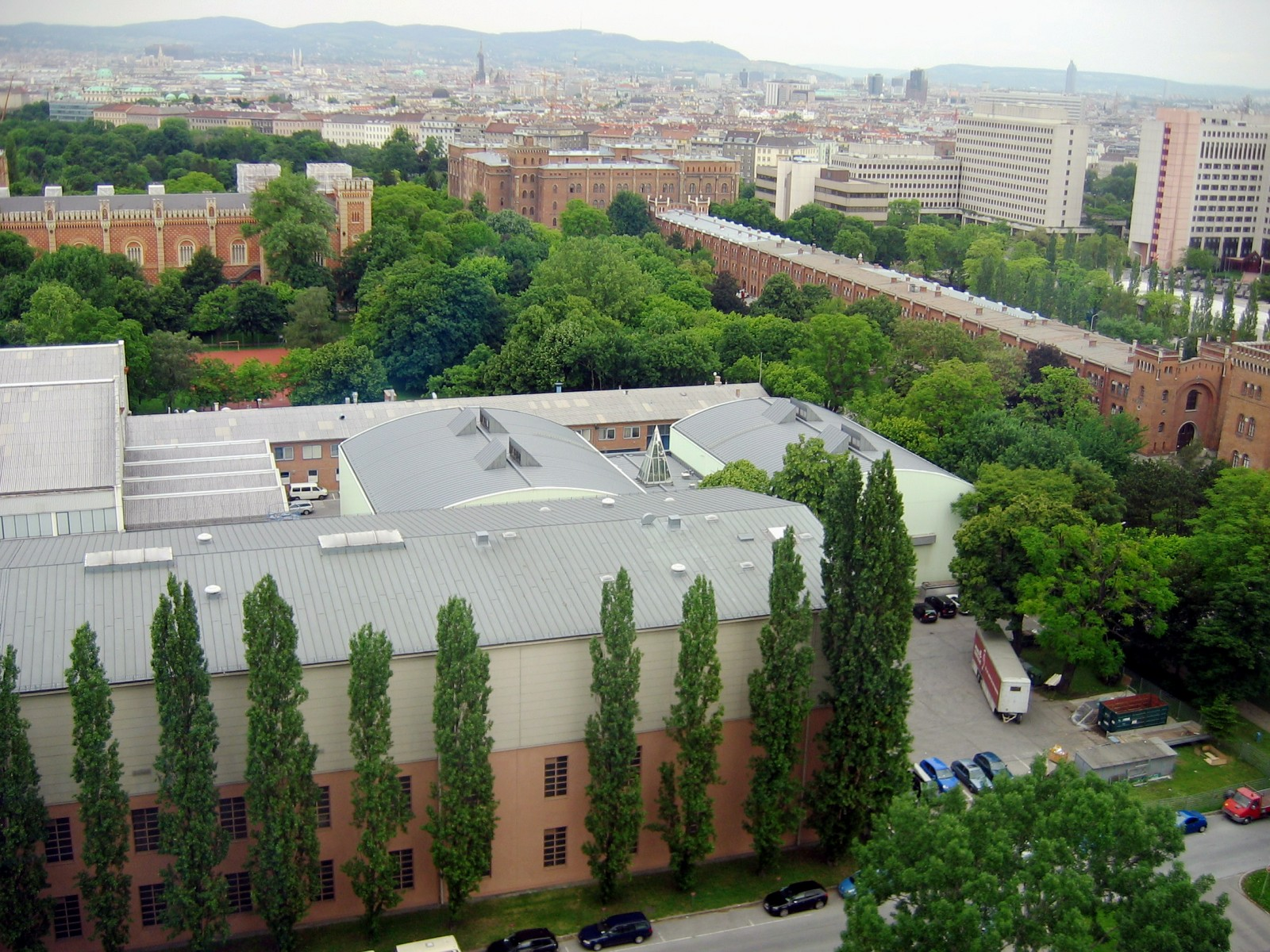 The rehearsal stage of the Austrian Federal Theaters within the workshop facilities in Vienna Arsenal